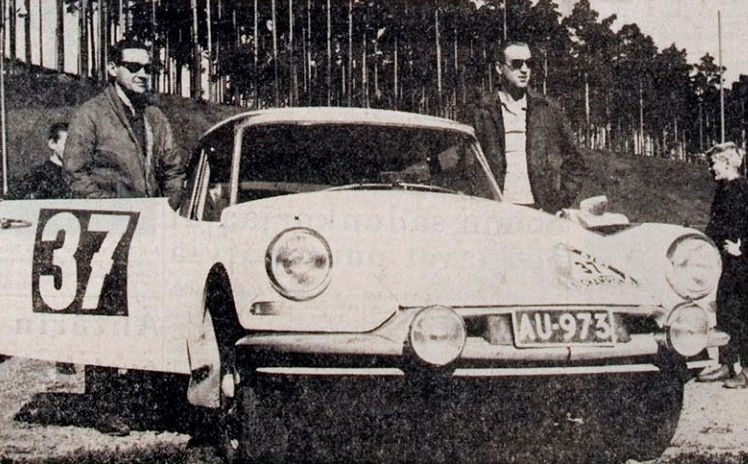 Pauli Toivonen, his co-driver Jaakko Kallio and their Citroën DS 19 after winning the 1962 1000 Lakes Rally (Rally Finland).